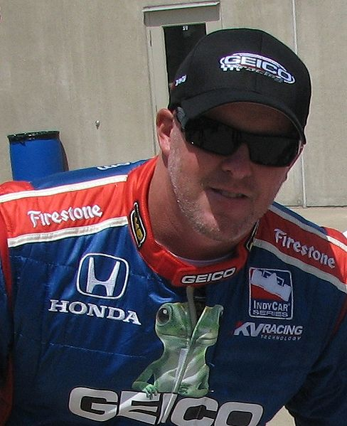 Paul Tracy at the Indianapolis Motor Speedway for second day qualifications for the 2009 Indianapolis 500.